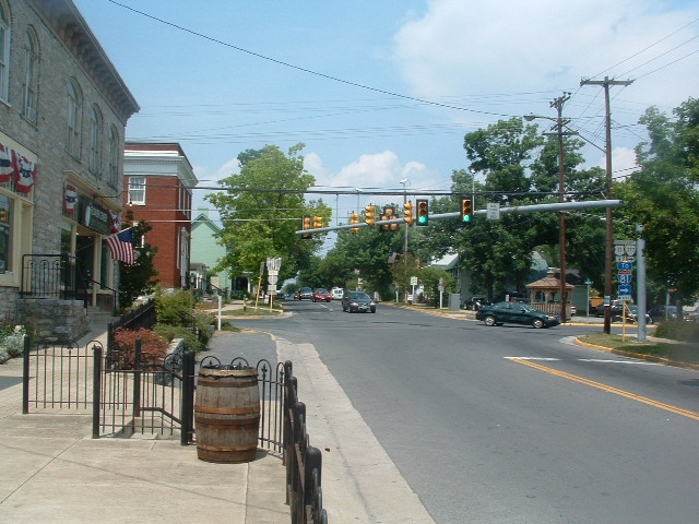 The intersection of US Route 11, Virginia State Route 277, and Virginia County Route 631 in central Stephens City, Virginia.